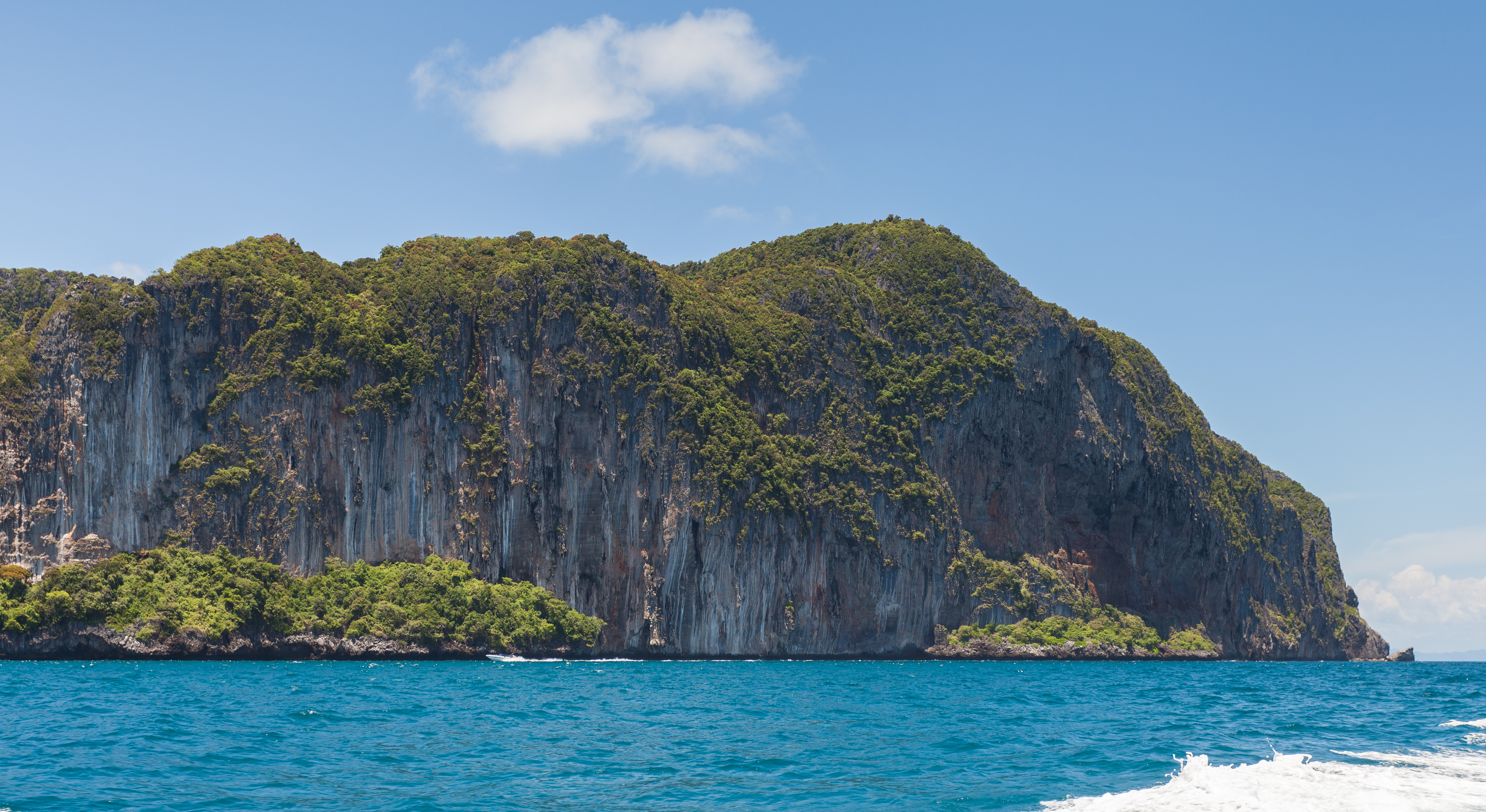 Ko Phi Phi Don Island, Thailand